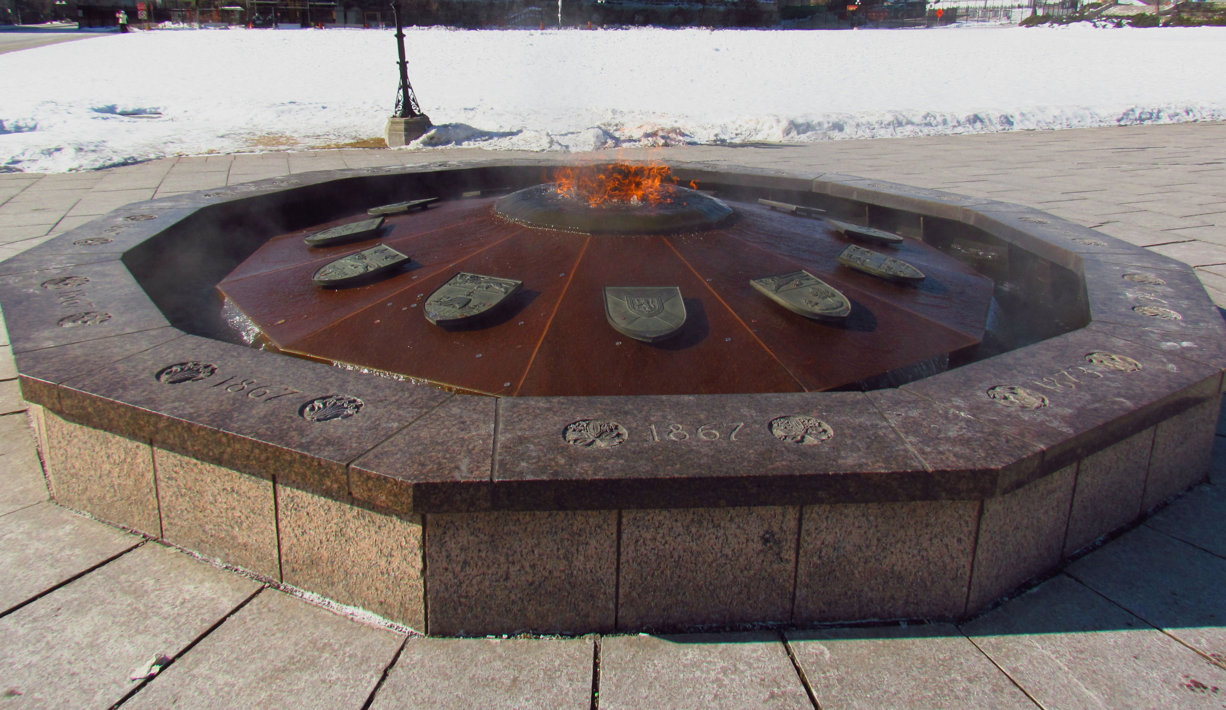 Centennial Flame in front of the Centre Block of the Parliament of Canada, Ottawa, Ontario, Canada